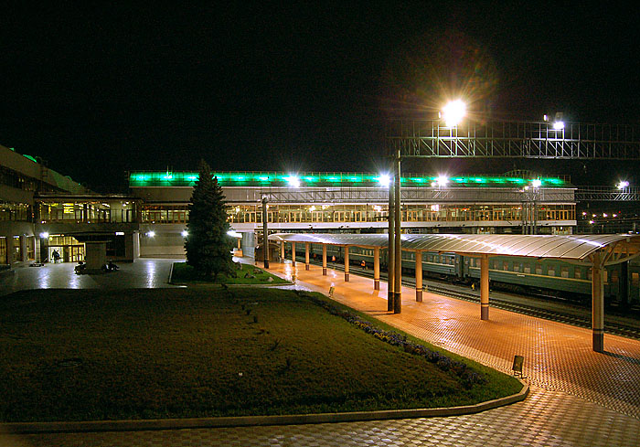 Night view to "Chelyabinsk - The Main" railway Station. On the picture you can see the 1st platform and a part of a station building.